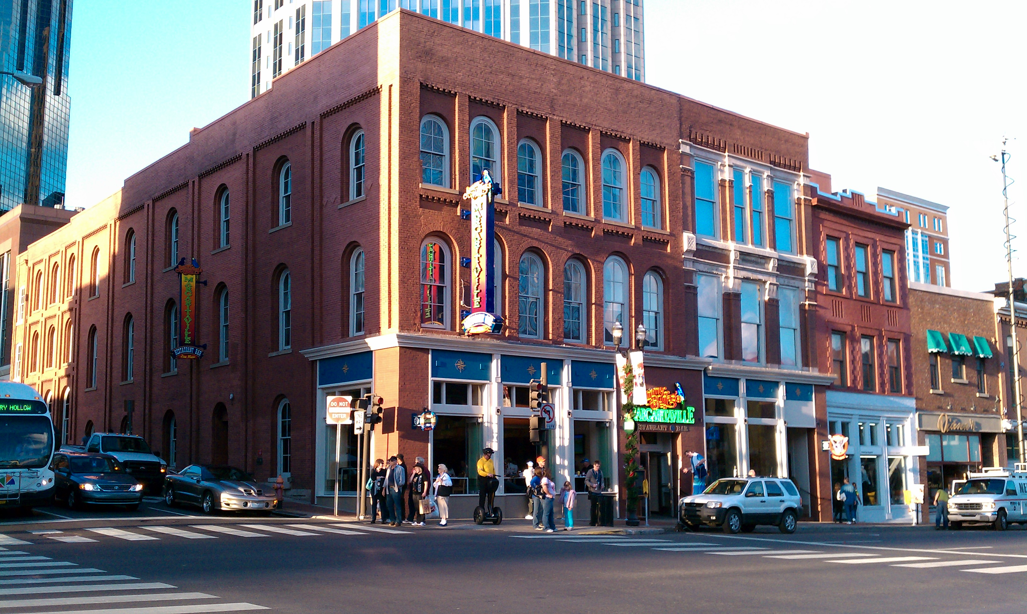 Grand Opening of Jimmy Buffett's Margaritaville in downtown Nashville